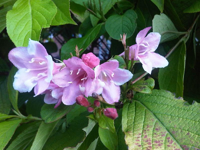 Weigela florida flowers in Kew Gardens, England.